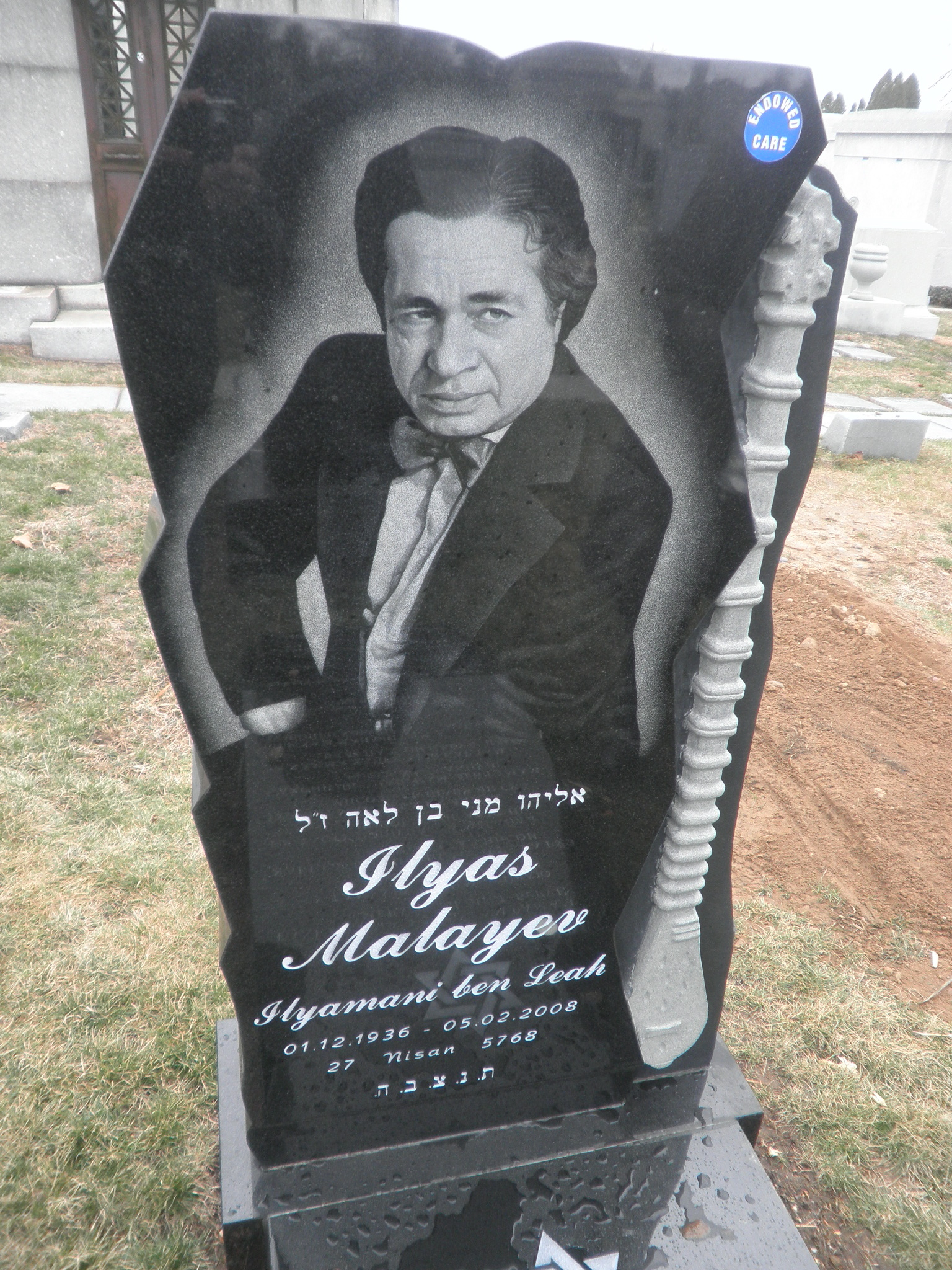 Grave of Honored Artist of Uzbekistan, virtuoso, musician, poet, playwright, composer, ILYAS MALLAYEV.